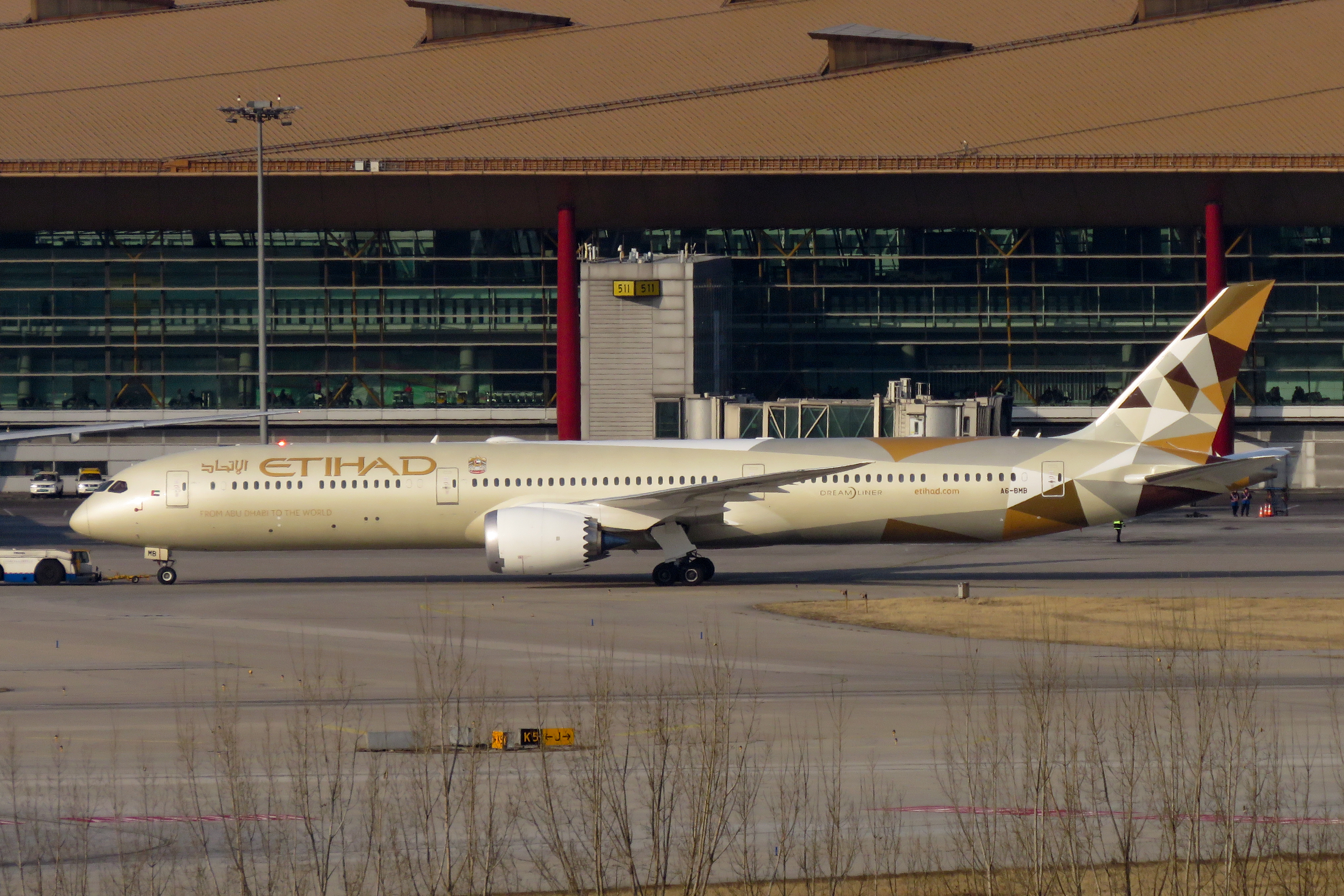 This 78X is not going to Nagoya, so should we call it 0EY885?